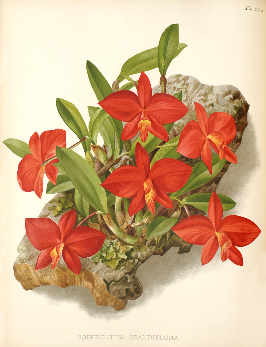 The Scarlet Sophronitis